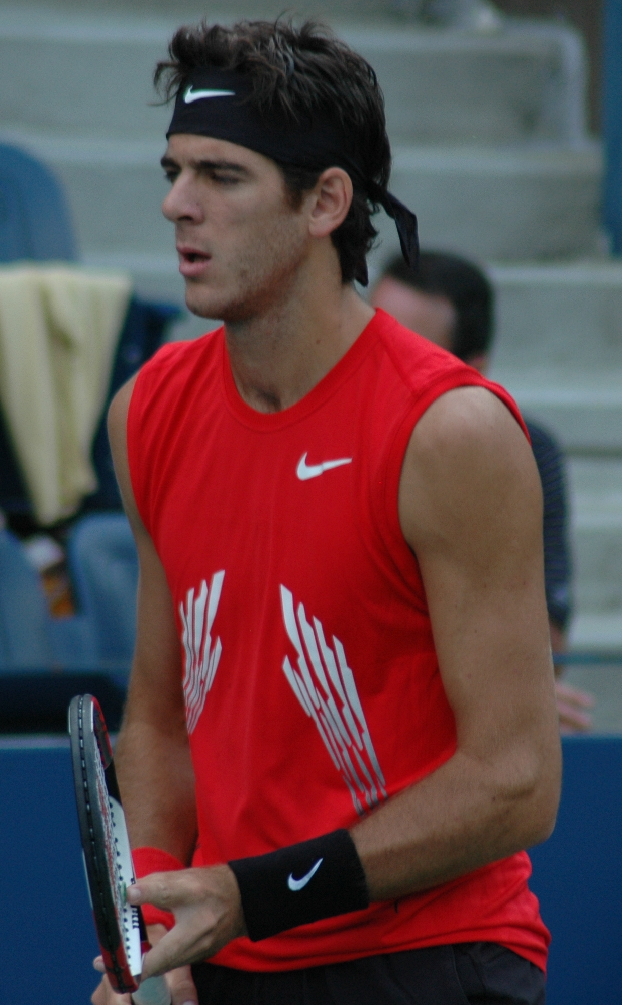 Juan Martin del Potro at the 2008 US Open